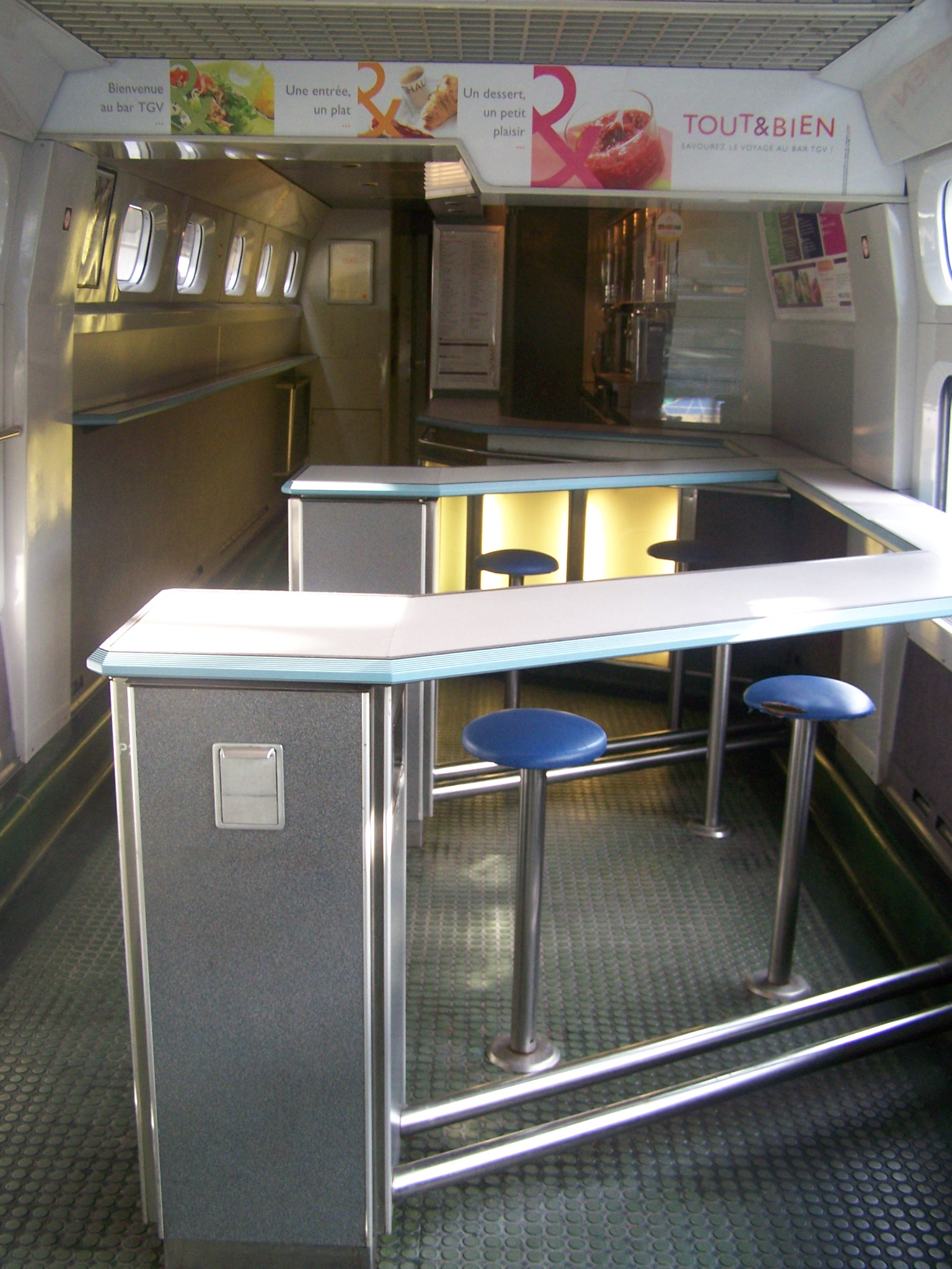 Inside of a buffet-car on a French TGV.